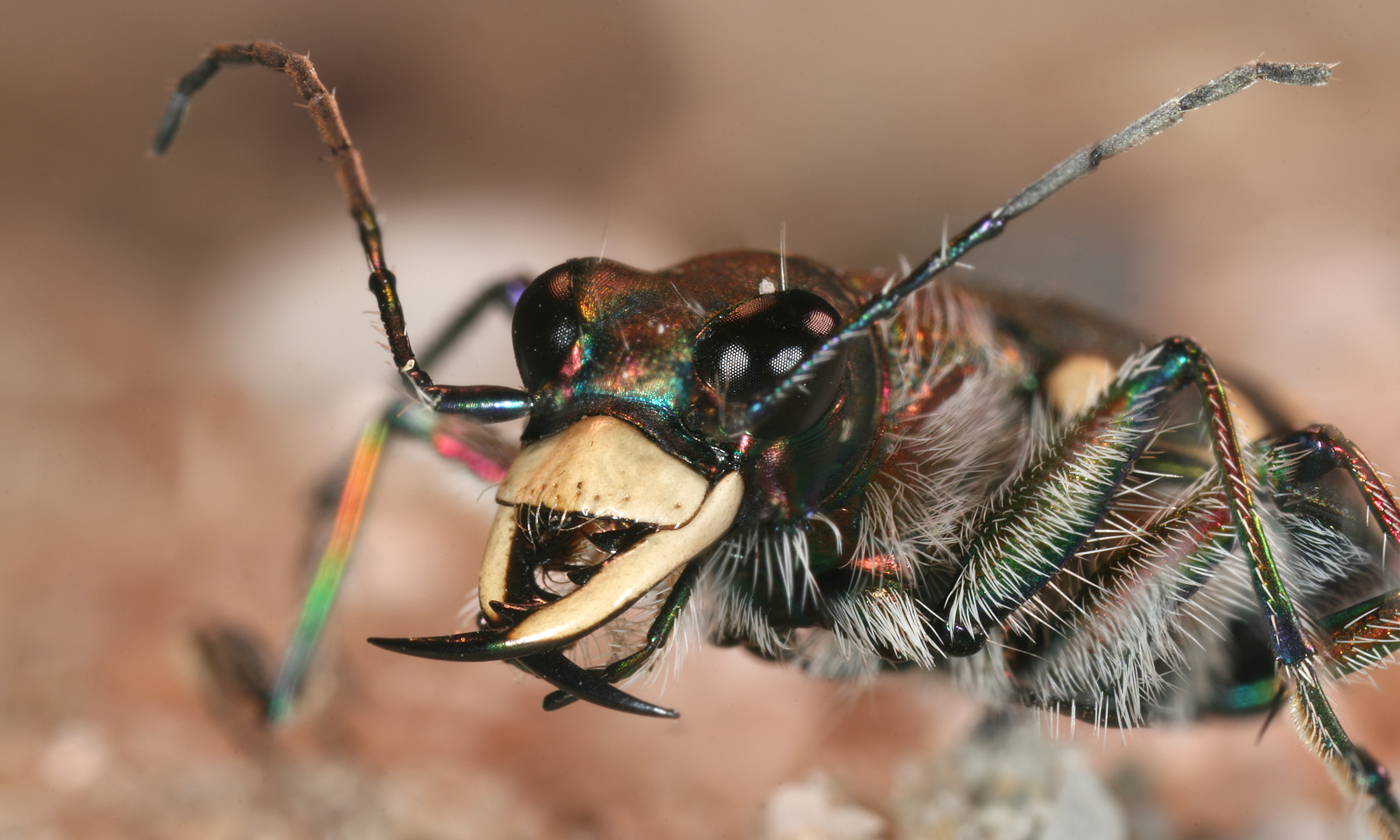 Description: The tiger beetles are a large group of beetles known for their predatory habits. As shown a Sandlaufkäfer 'Cicindela hybrida'